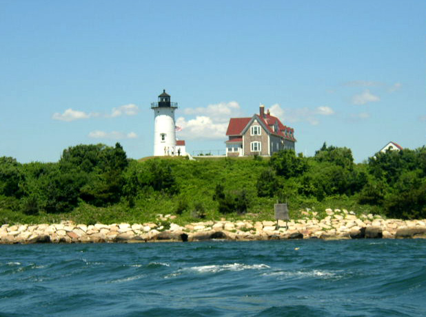 Nobska Lighthouse, Cape Cod, USA